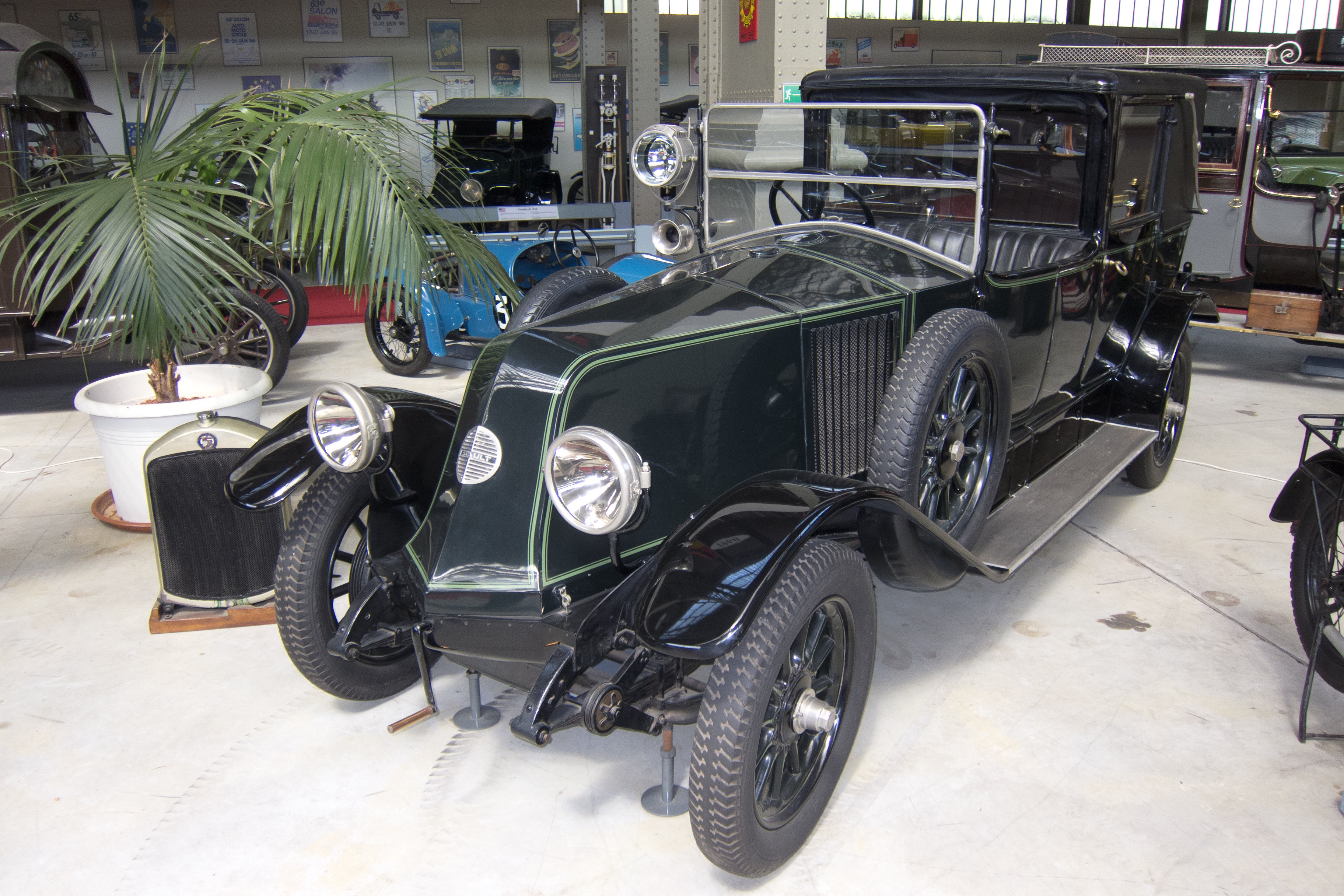 Renault Type MG Coupe-Chauffeur by Gamette (1924) at Autoworld Brussels, Belgium, 2011